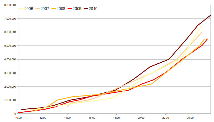 Comparative graph of La Marató de TV3 2006, 2007, 2008, 2009 and 2010